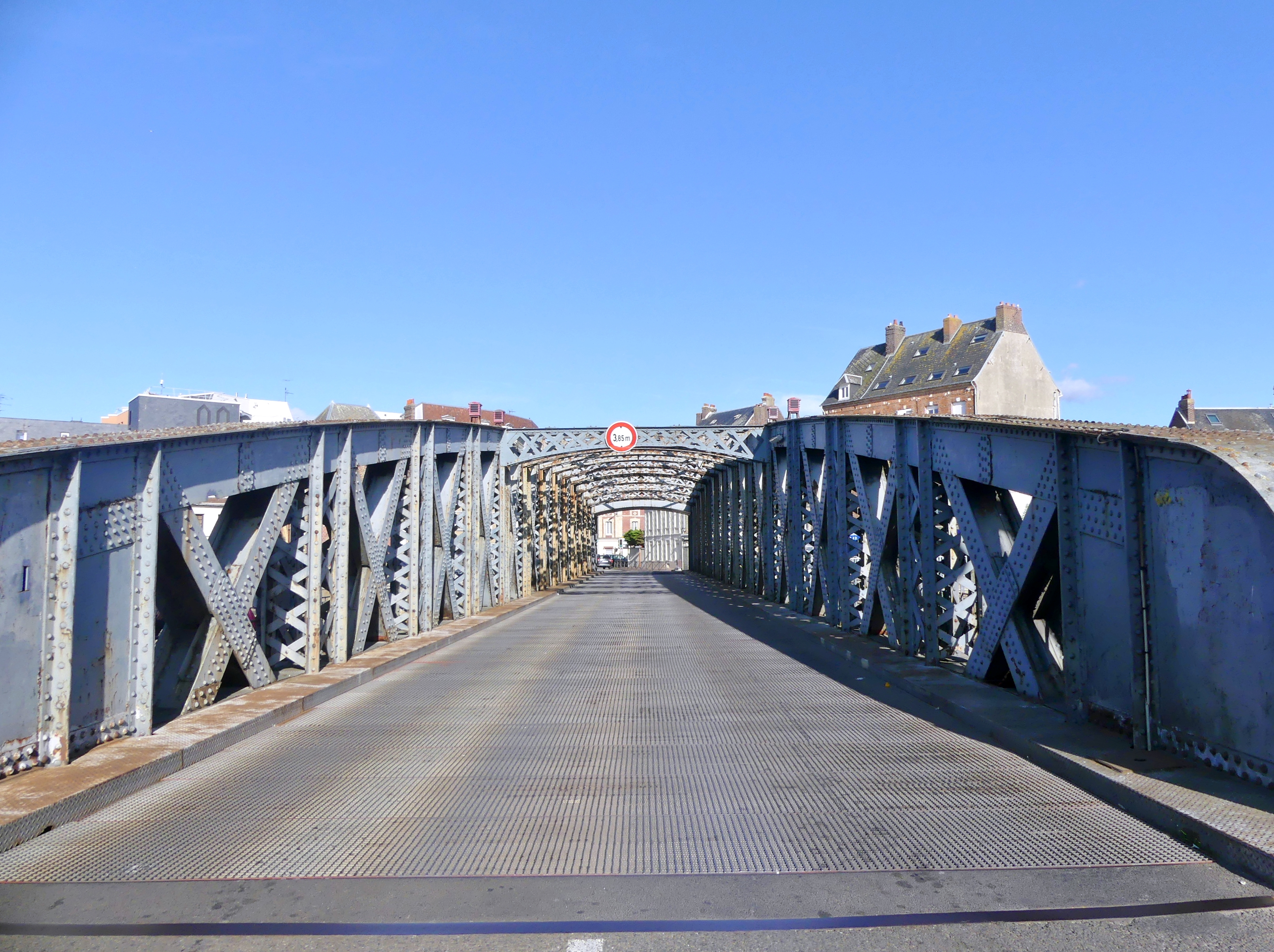 Sight of the Pont Colbert swing bridge, in Dieppe, Normandy, France.